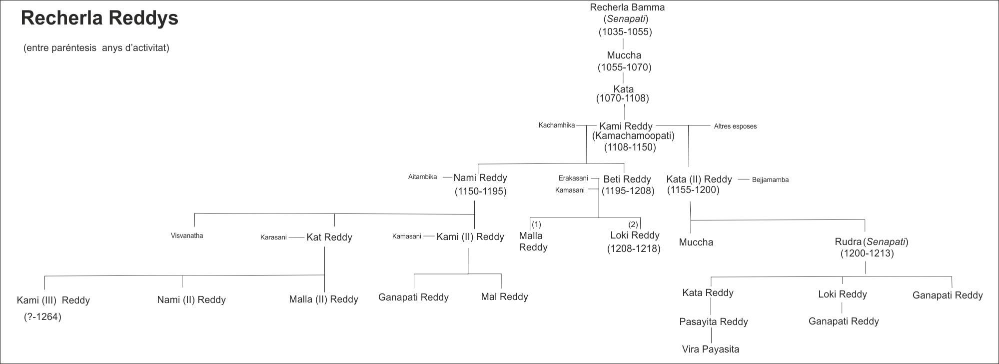 Recherla Reddys genealogy